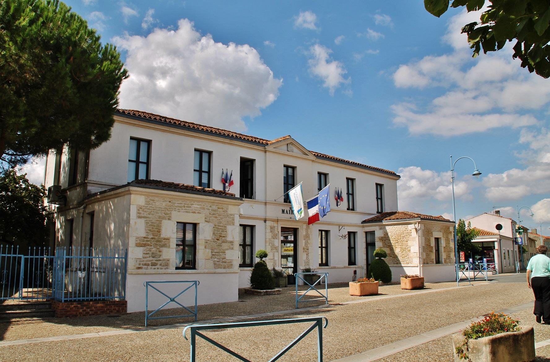 La Mairie